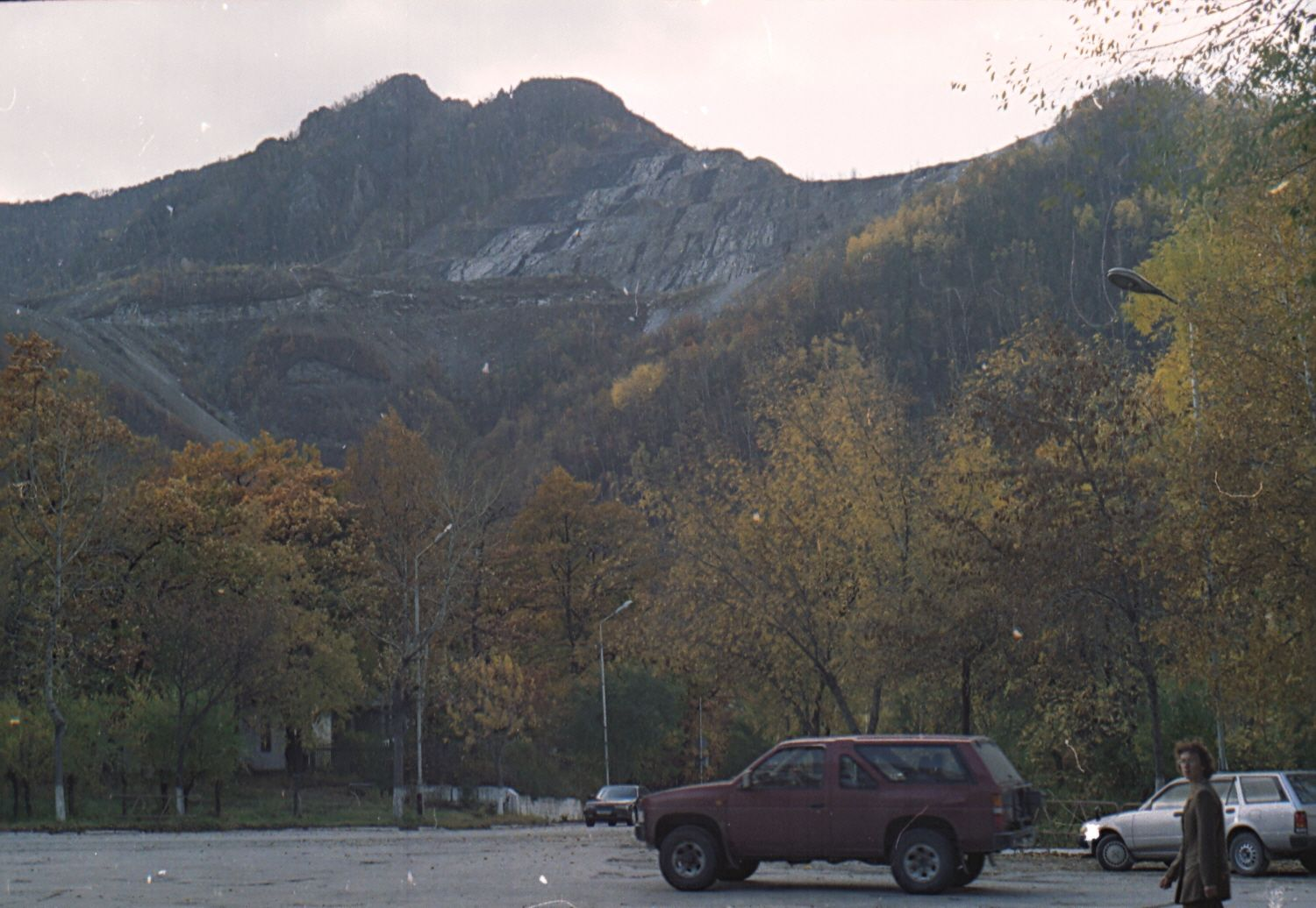 Dalnegorsk